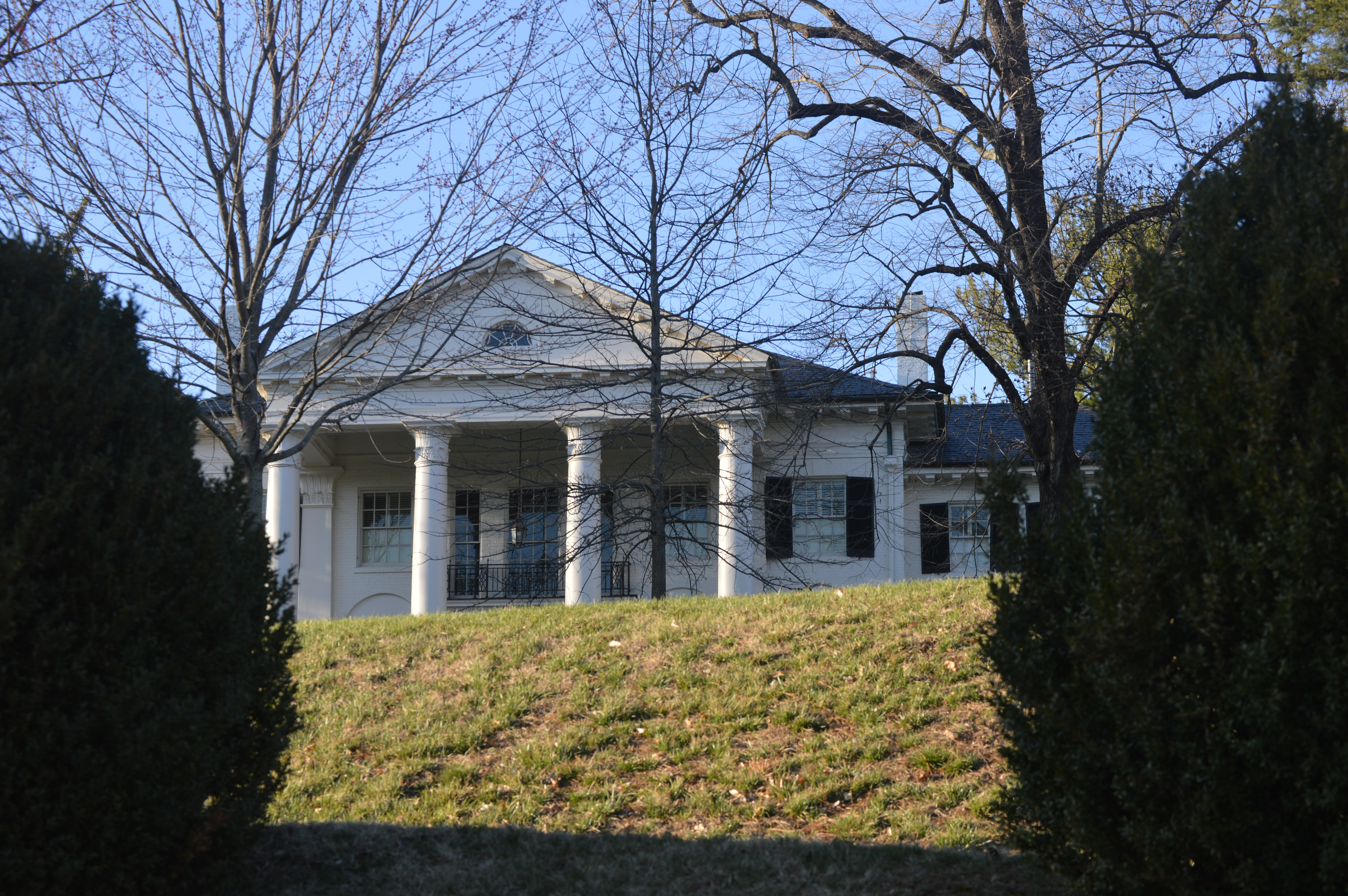 Front of Kenridge, located on Kenridge Park Road northwest of Charlottesville in Albemarle County, Virginia, United States. Built in 1922, it is listed on the National Register of Historic Places.